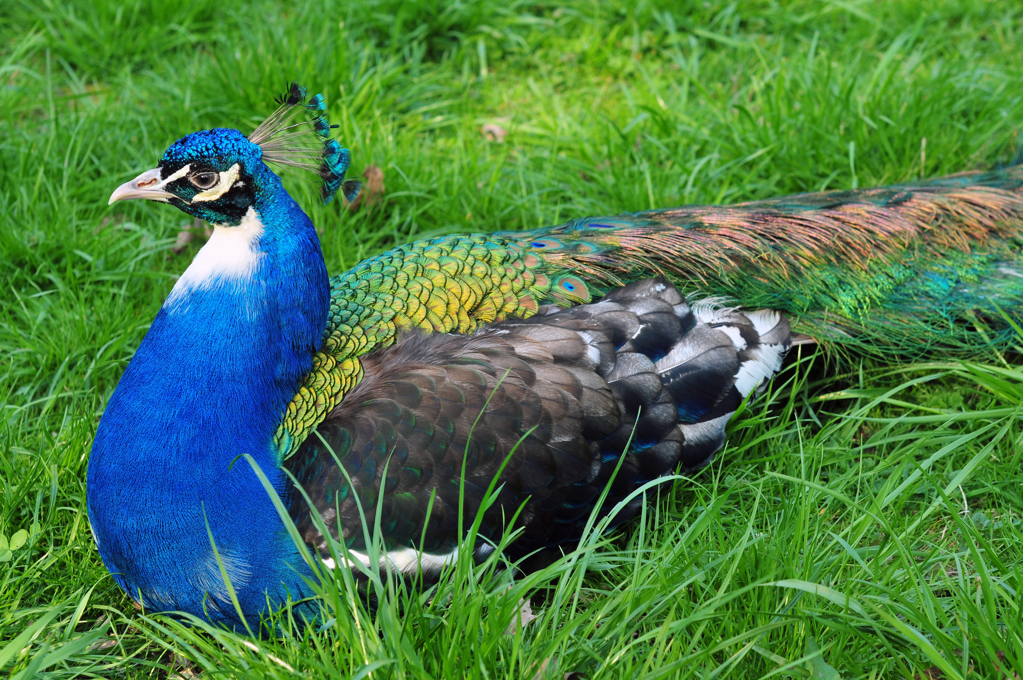 Indian Peacock, with nigripennis and pied mutations.